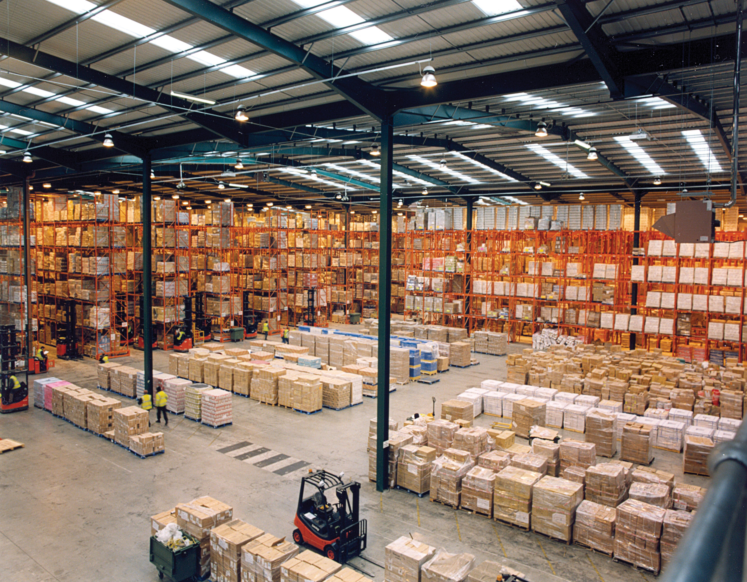 modern warehouse with pallet rack storage system